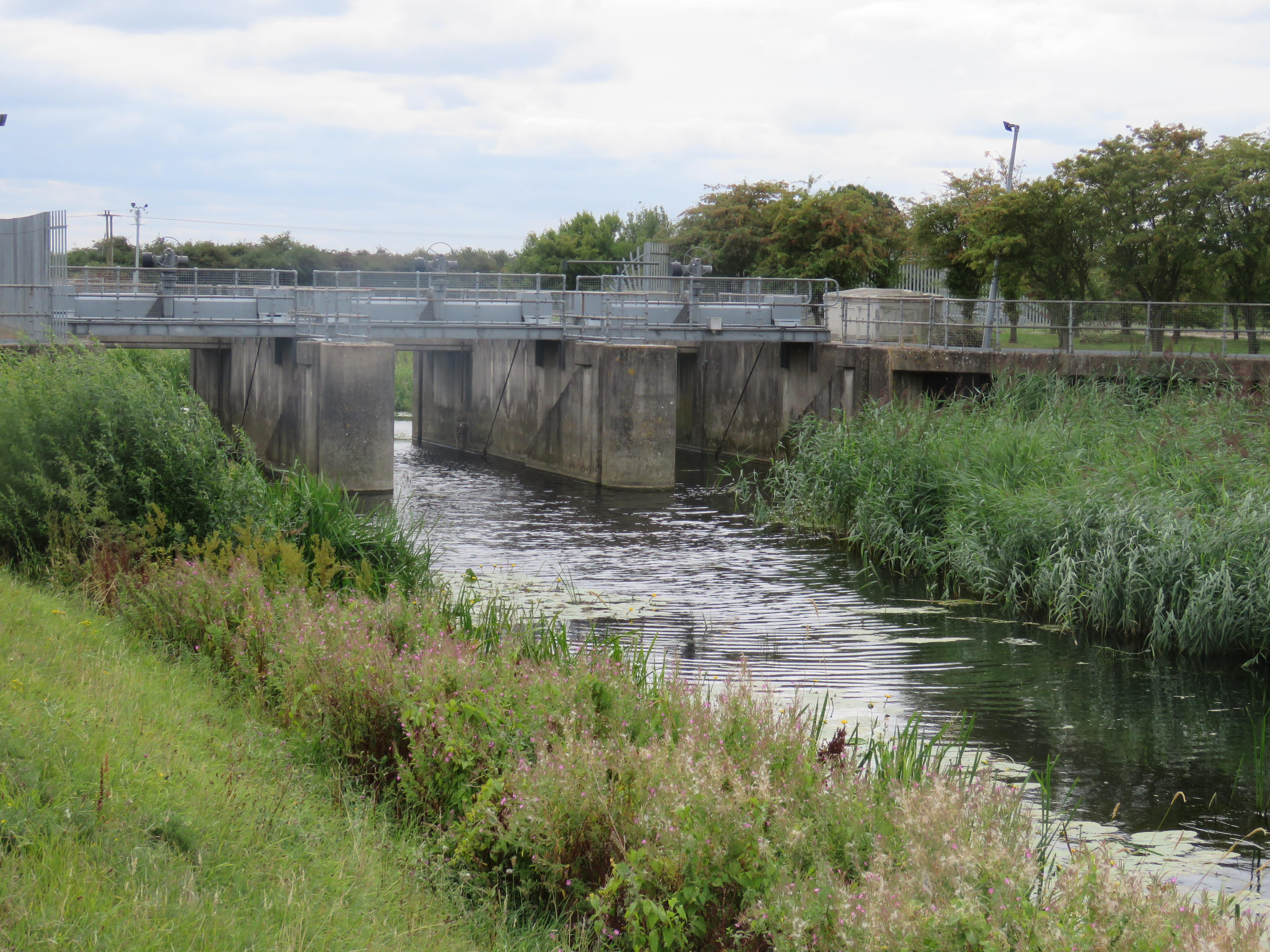 The Till Washlands main sluice on the River Till, Lincolnshire, with the gates in the open position.